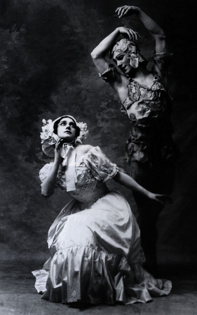 Photo of Nijinsky and Karsavina in the first performance of "Spectre de la rose", 1911